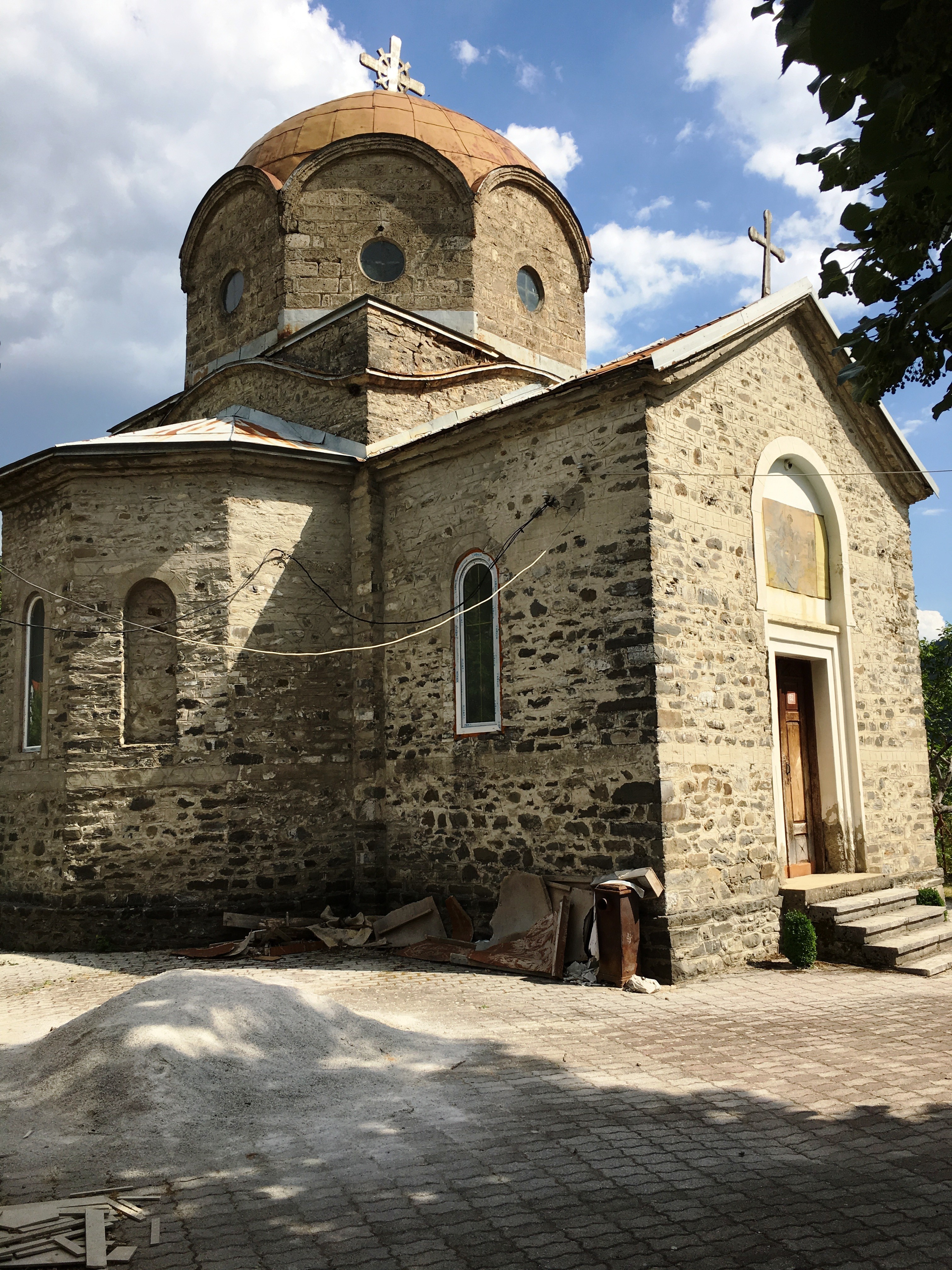 St. George Church in the village of Velebrdo